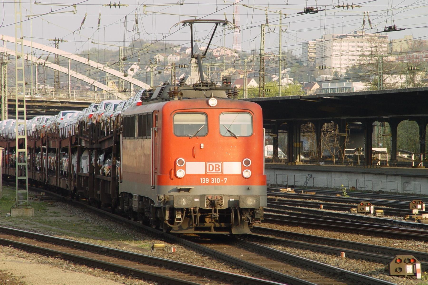 139 310-7 in traffic red/light grey with freight train Wuerzburg Central Station